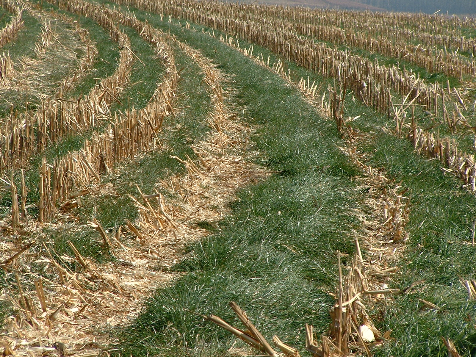 Italian ryegrass (Lolium multiflorum) as a cover crop following maize June 2004, KwaZulu-Natal, South Africa). Maize residues together with the ryegrass are used as winter fodder for livestock. In spring (August-September), the grass is allowed to grow without further grazing, then killed with herbicide before the following crop (maize or soyabean) is planted using a no-till planter.